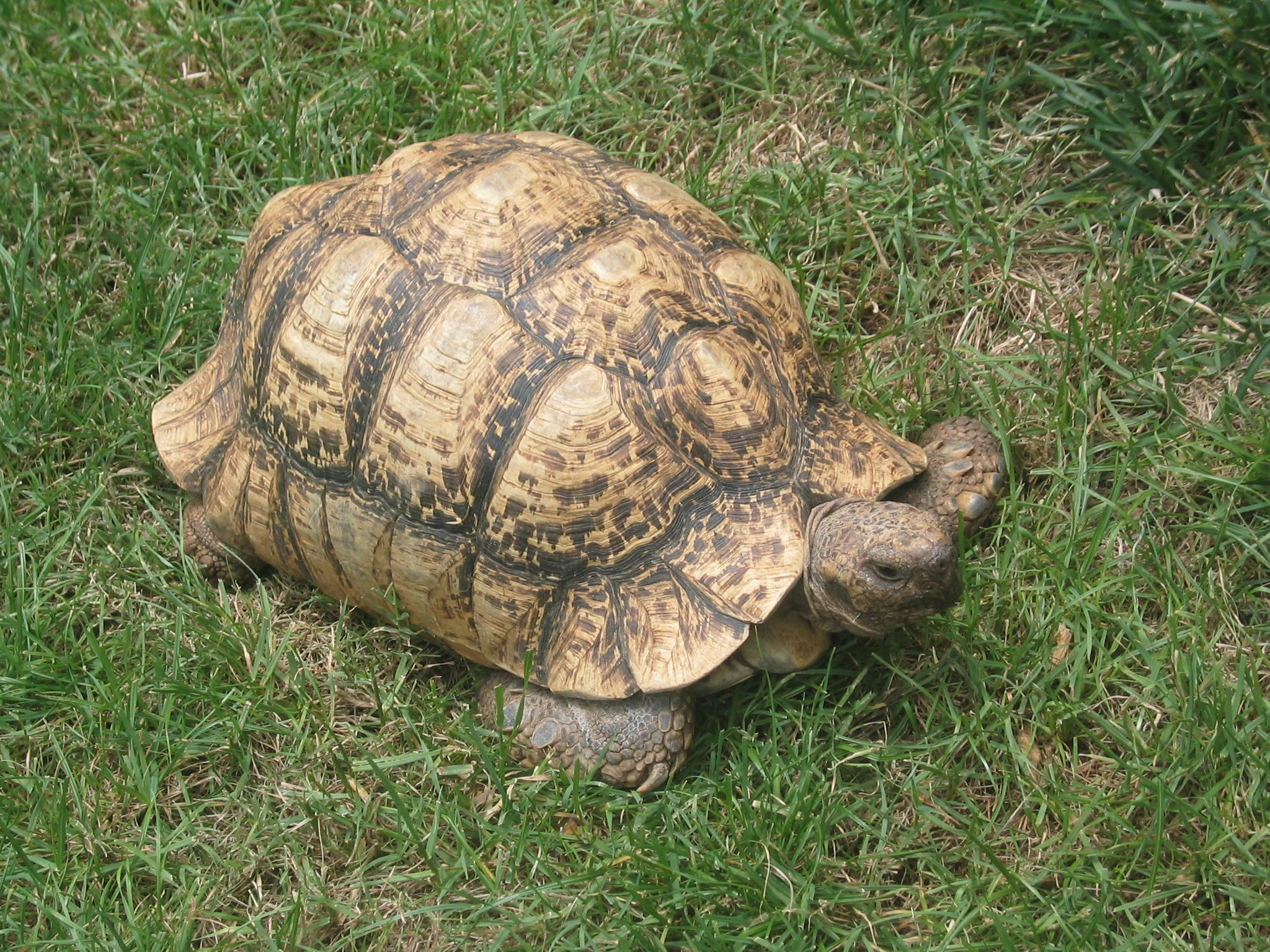 A male African Leopard Tortoise about 20 years old. He weighs approximately 30 pounds and his shell is about 14 inches long.